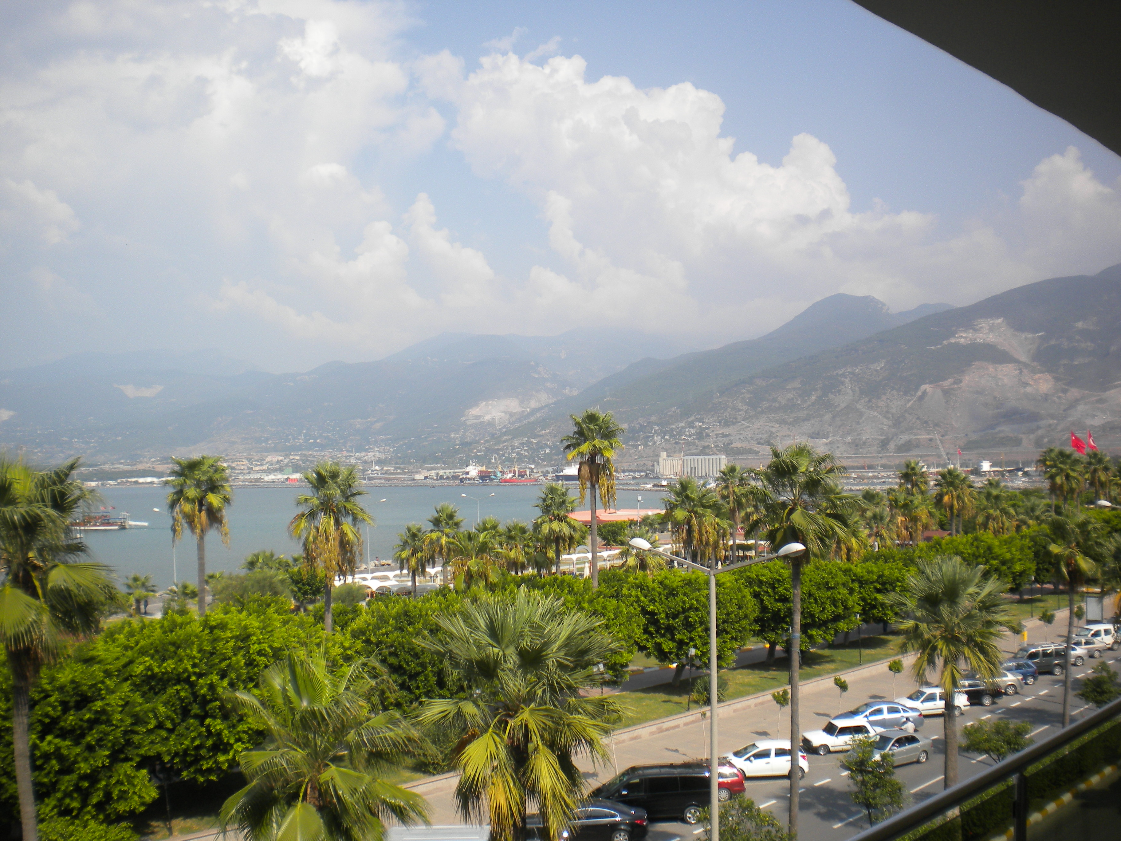 Photo of shoreline in Iskenderun including backdrop of mountains.